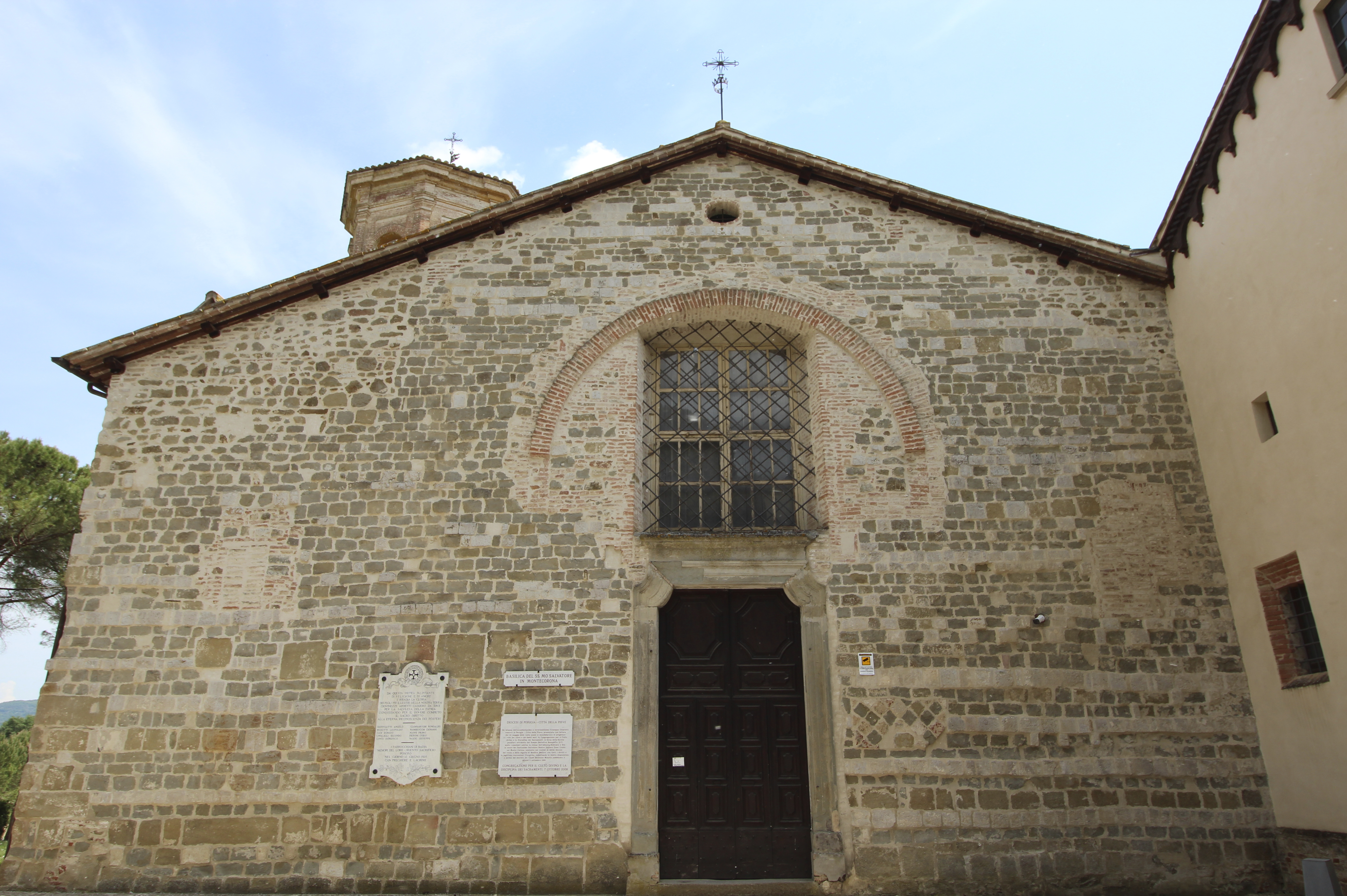 Church and Abbey San Salvatore di Montecorona (also: Abbazia Camaldolese di San Salvatore, Badia di Montecorona, San Salvatore di Monte Acuto), territory of Umbertide, Umbria, Italy